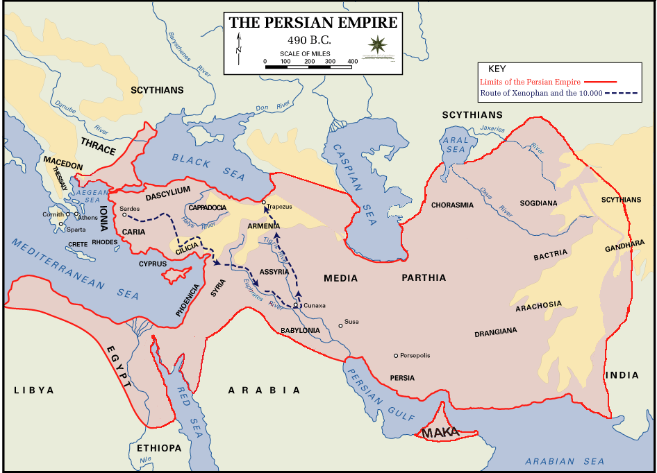 Persian Empire, 490 BC, showing route of Cyrus the Younger, Xenophon and the 10.000. Legends: ━━━━ Route of Xenophon and the 10.000 —— Limits of the Persian Empire. Expansion of Empire. ? (probably supposed to be mountains, but poorly drawn and inconsistent)